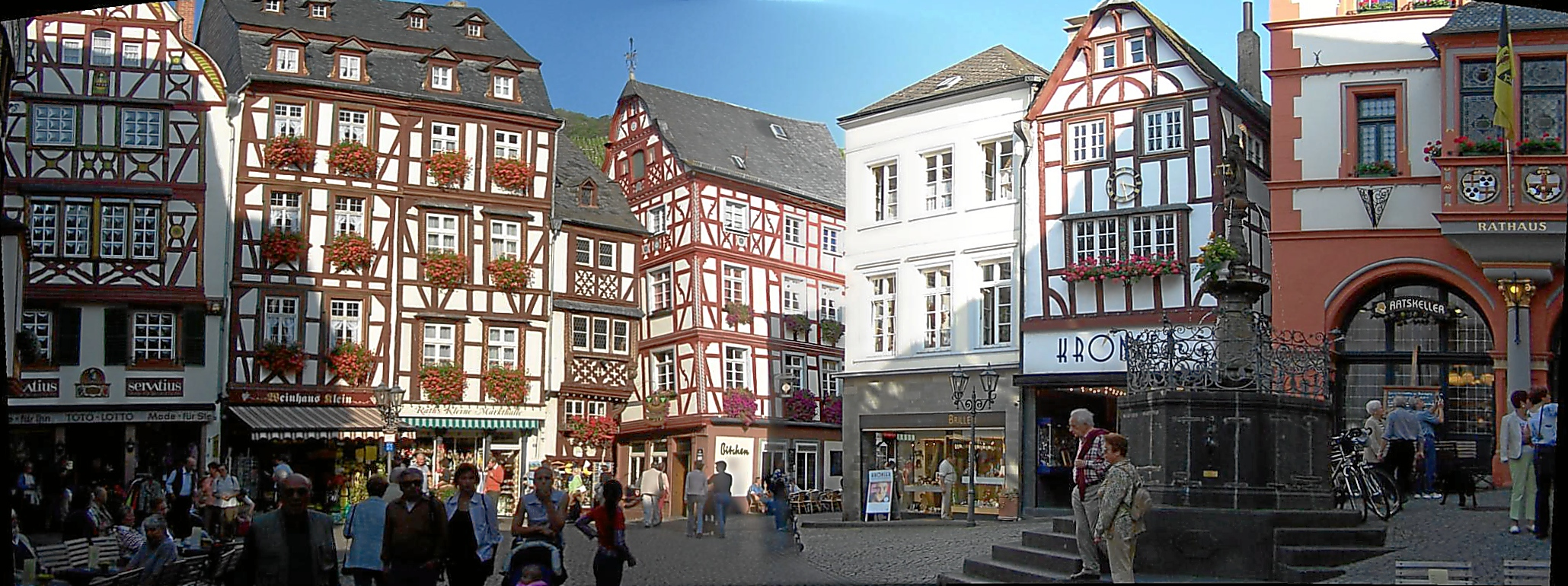 Marketplace of Bernkastel at the River Mosel in Germany